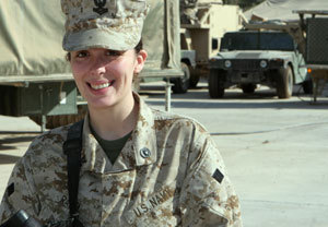 Petty Officer 2nd Class Sarah Radel, 25, was among many female service members assigned to search Iraqi women and children entering the city of Fallujah. According to Radel, the month-long duty was frightening, but an experience she'll never forget.